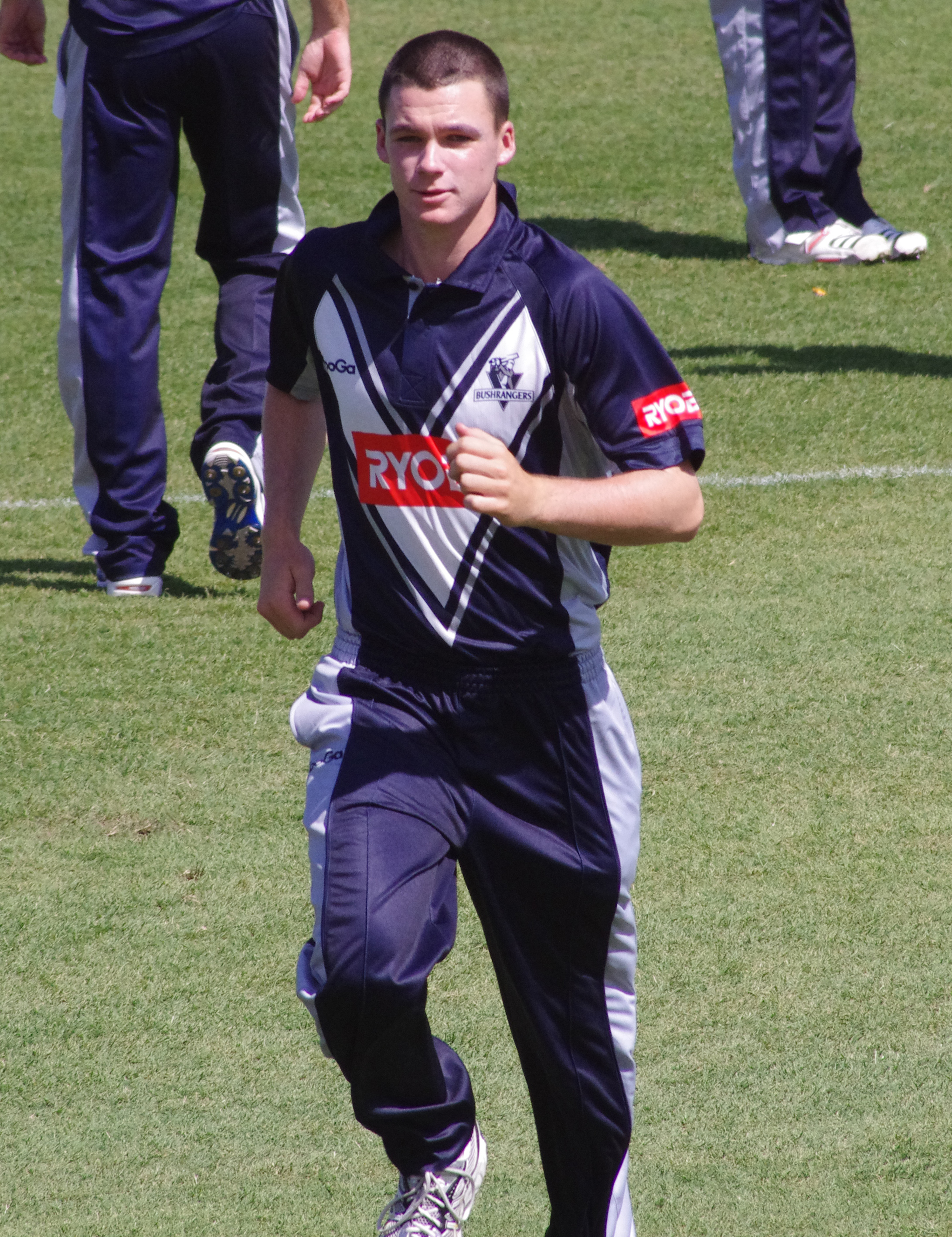 Australian cricketer Peter Handscomb